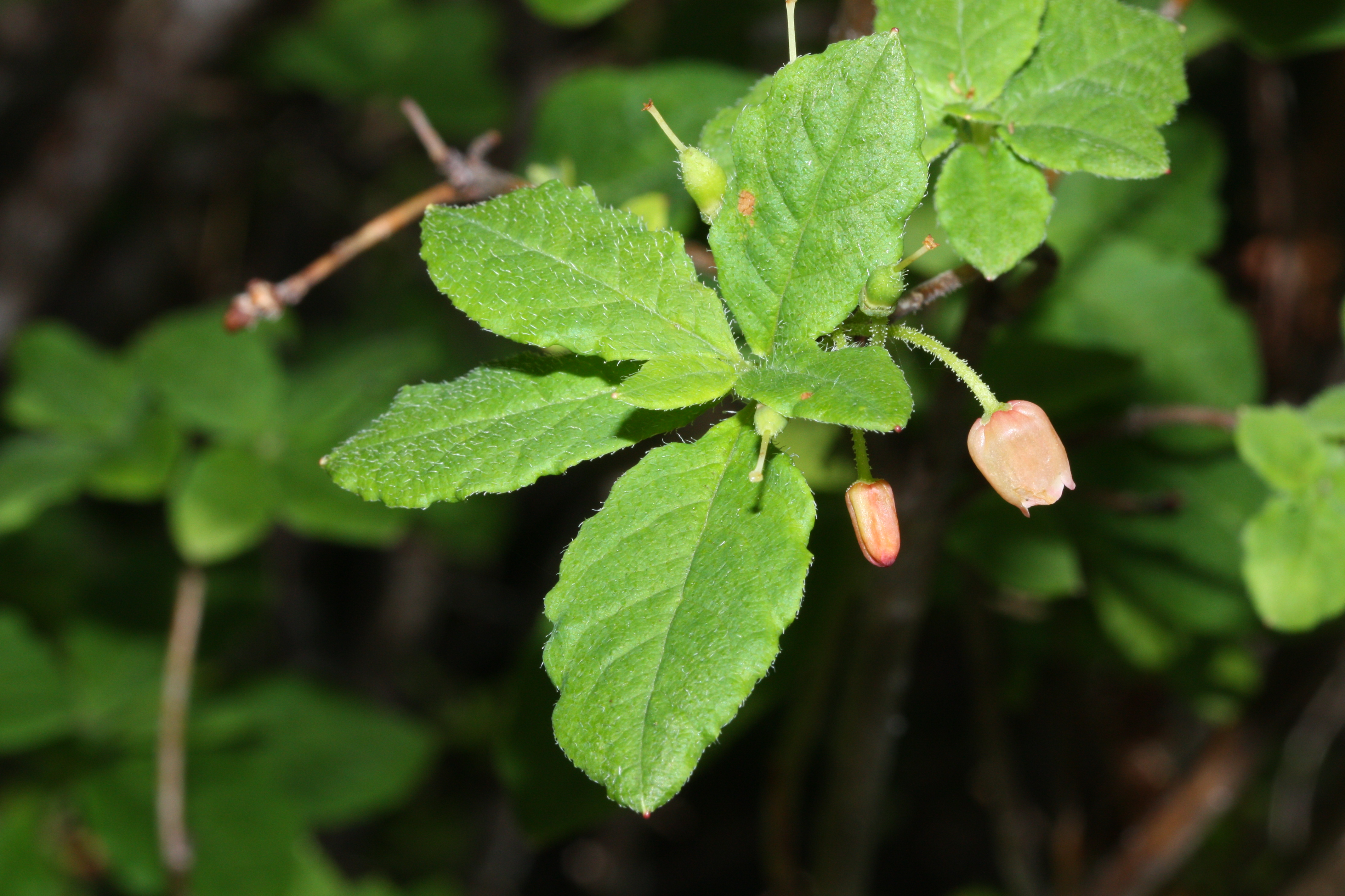 False Azalea, Fool's-huckleberry, Rusty Menziesia